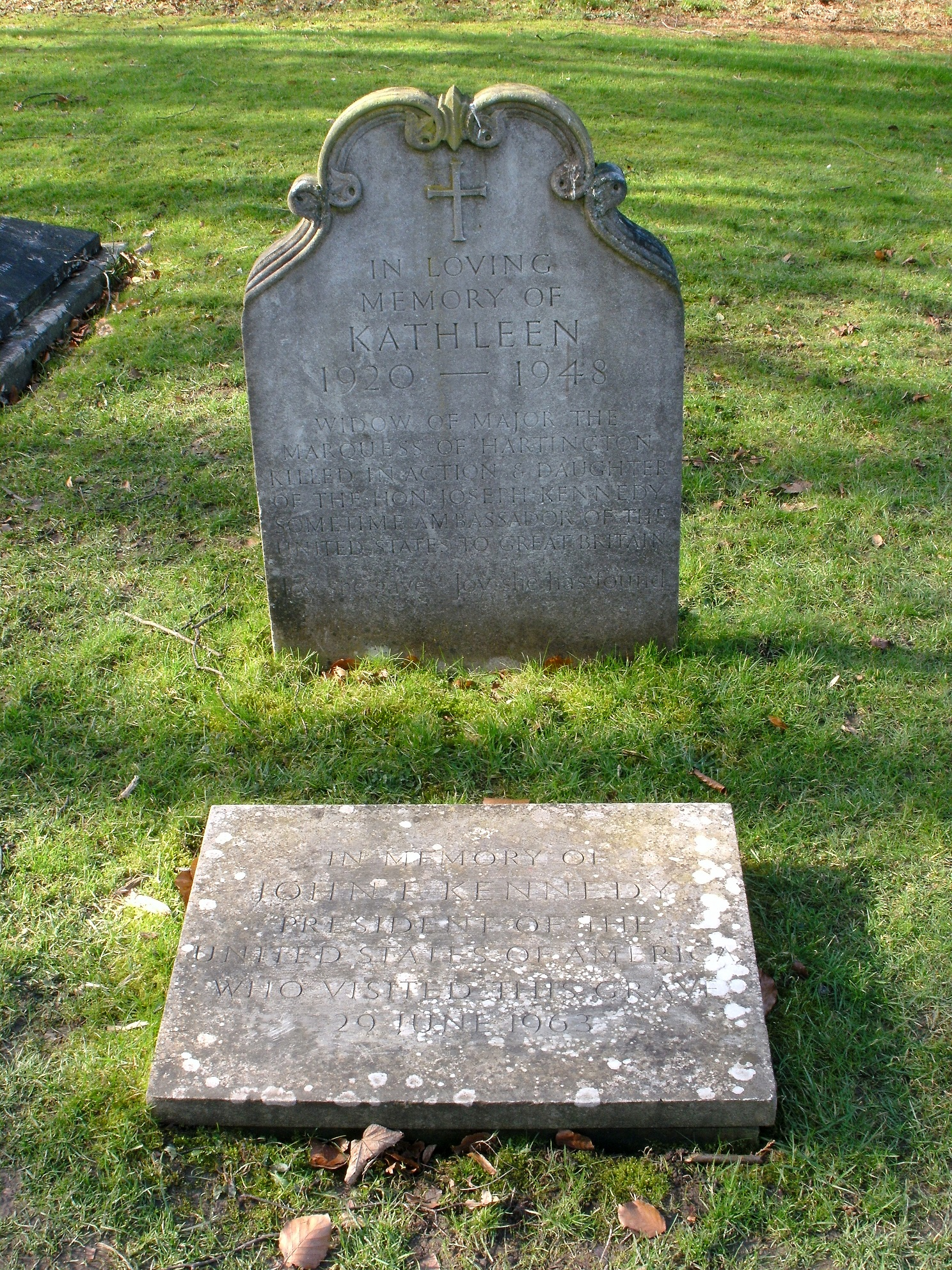 St Peter's Churchyard, Edensor - grave of Kathleen Cavendish, Marchioness of Hartington (née Kennedy, 1920–1948), sister of U.S. President John F. Kennedy and widow of William Cavendish, Marquess of Hartington (1917–1944). Her grave is marked with a headstone and a plaque in the ground commemorating the visit of U.S. President John F. Kennedy at the gravesite